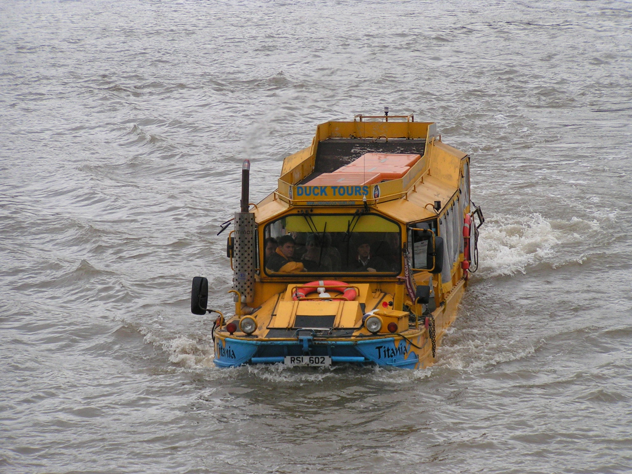 A DUKW on a tour of London, in the Thames just before landing at Vauxhall.